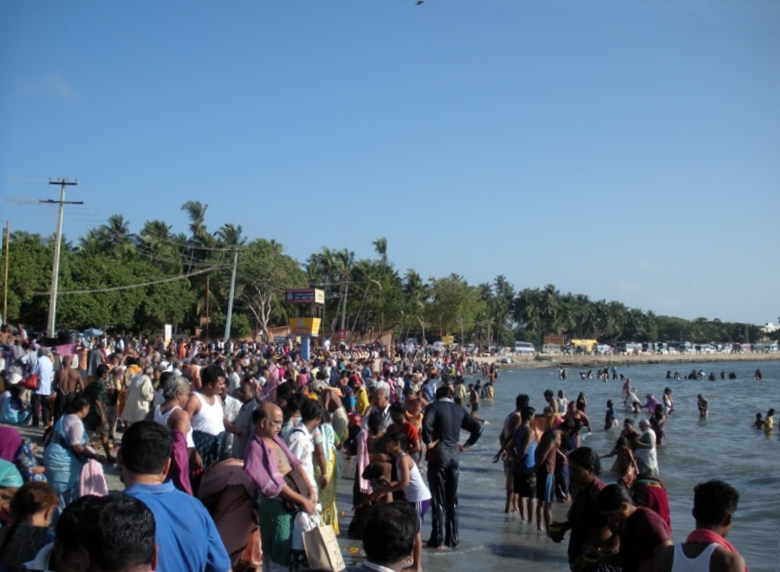 People thronging for the Holy Bath, Rameswaram